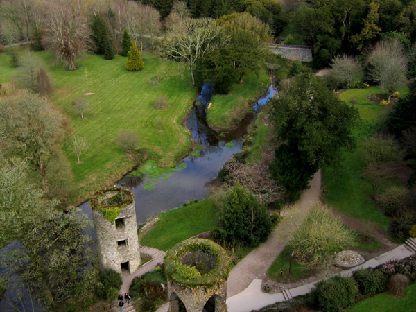 Grounds of Blarney Castle as seen from the top.